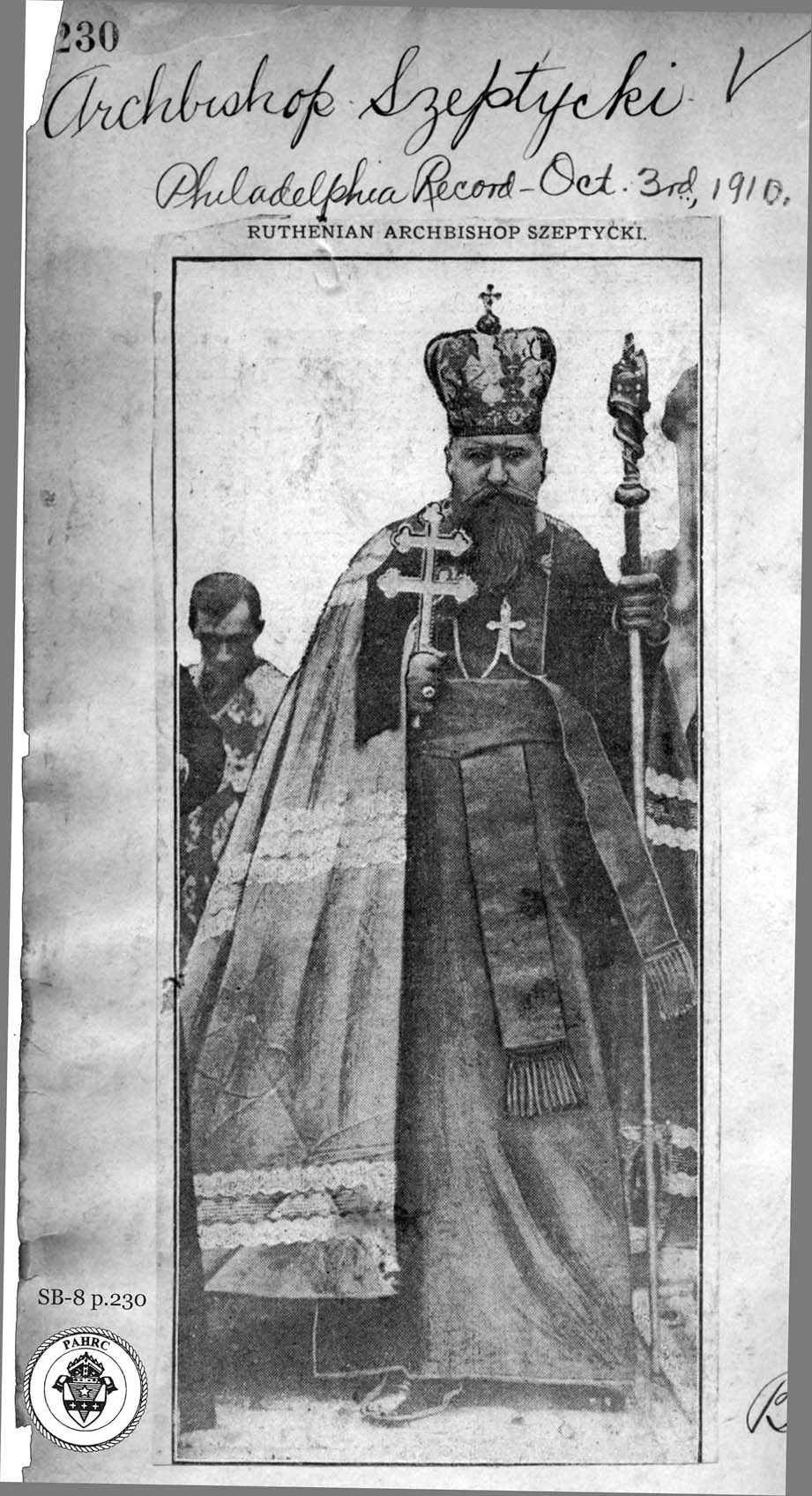 Photo of Archbishop Andreas Szeptycki in Philadelphia October 1910.